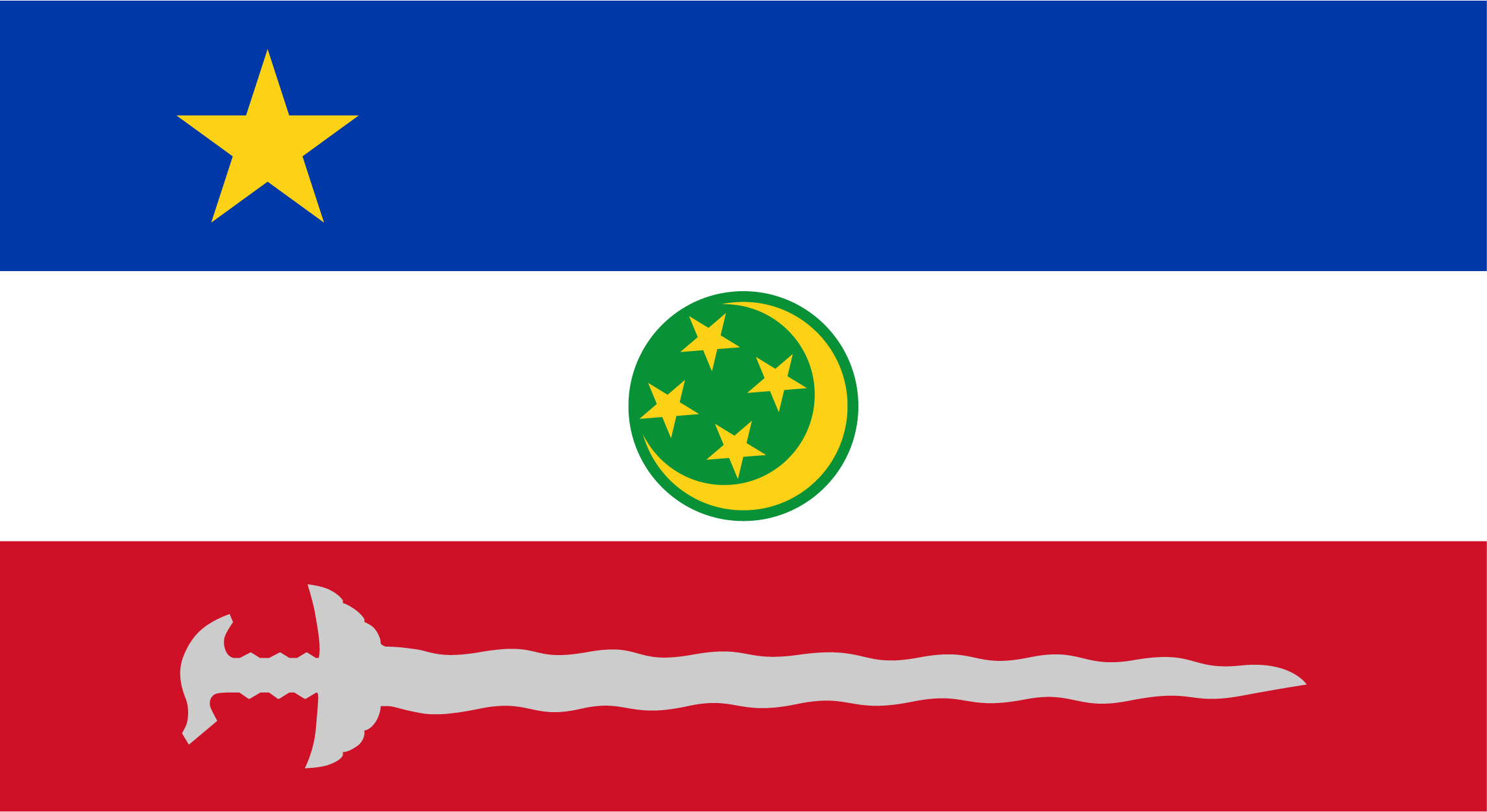 Flag of the Autonomous Region in Muslim Mindanao